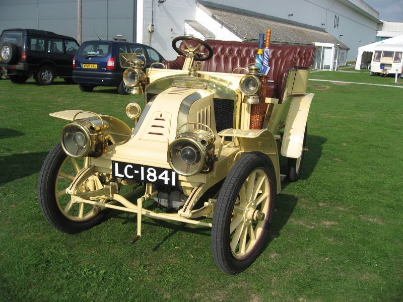 1905 Corre 8HP tonneau Science Museum Swindon Heritage Weekend 8 9 September 2007